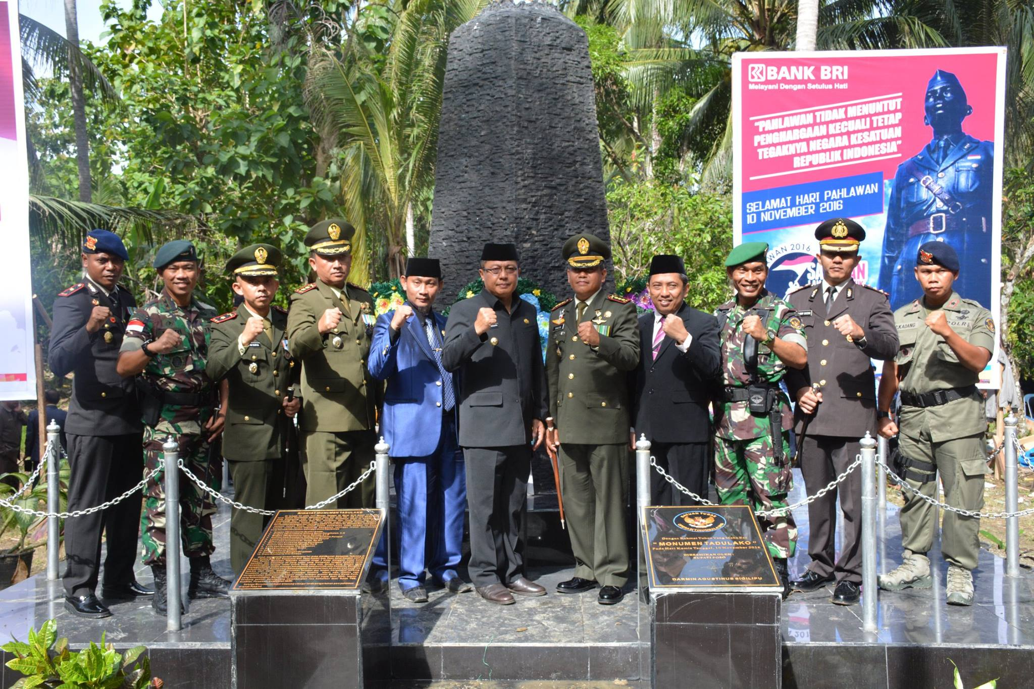 The Inauguration Ceremony of the Tadulako Monument, in Poso Regency, Central Sulawesi Province, Indonesia, 2016.